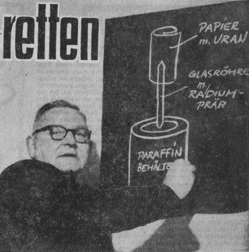 Heinrich "Heinz" Kurschildgen, called the "goldmaker of Hilden", depicted in a German press photograph with a diagram of his radium synthesis machine.